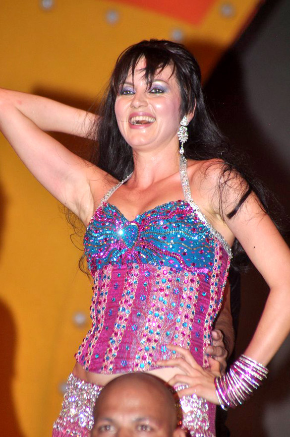 Yana Gupta at the launch of Lotus Refineries.